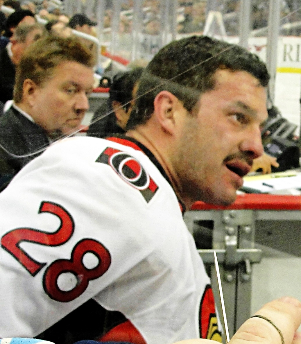 Ottawa Senators forward Zenon Konopka serves a penalty during a November 25, 2011 game against the Pittsburgh Penguins at Consol Energy Center in Pittsburgh, PA.